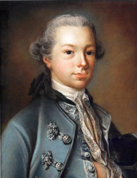 Portrait of Pierre Antoine Gérard de Bosc de la Calmette (1752-1803), Dutch diplomat, Danish district officer and estate owner, garden architect, creator of Liselund